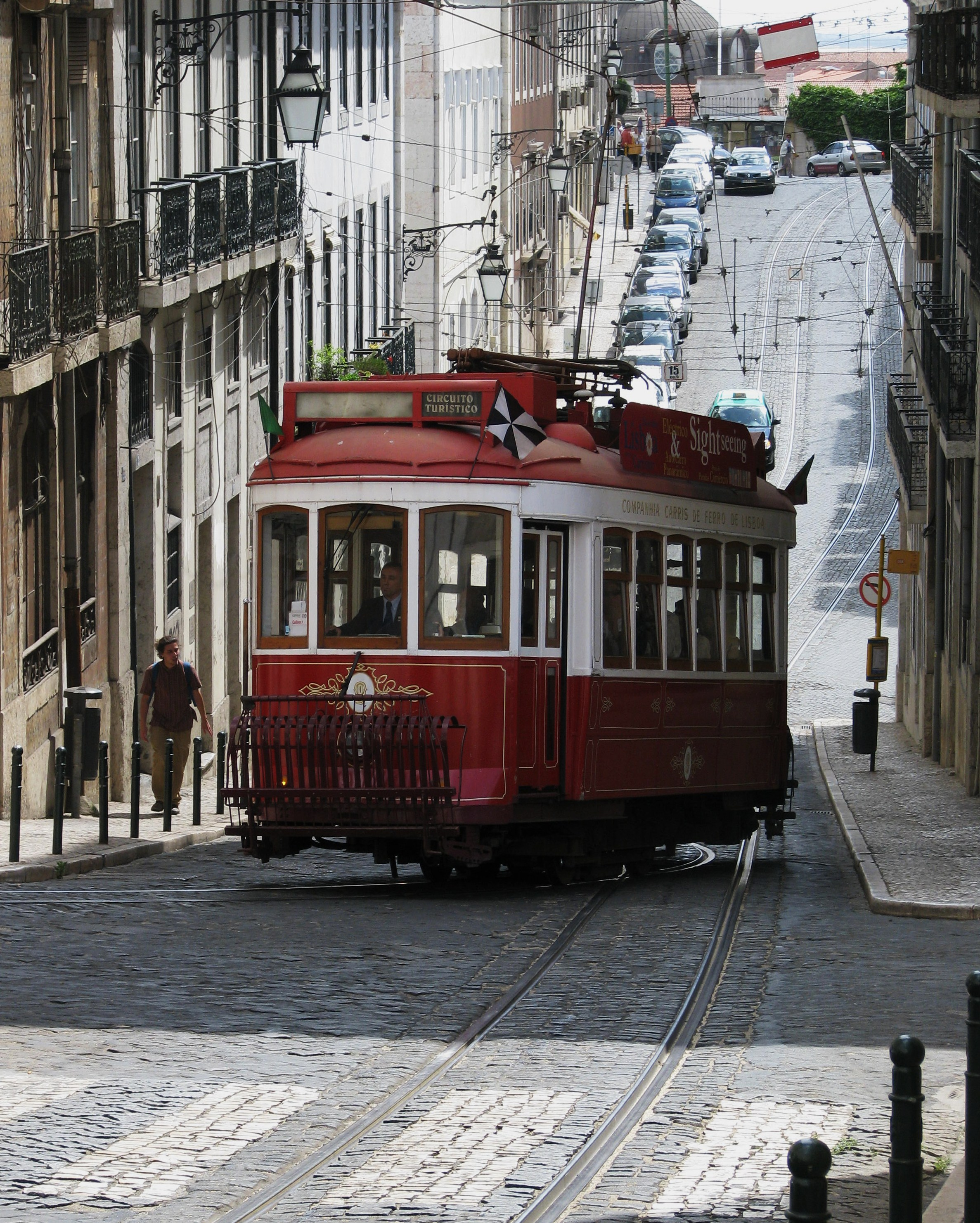 A restored old tram in Lisbon